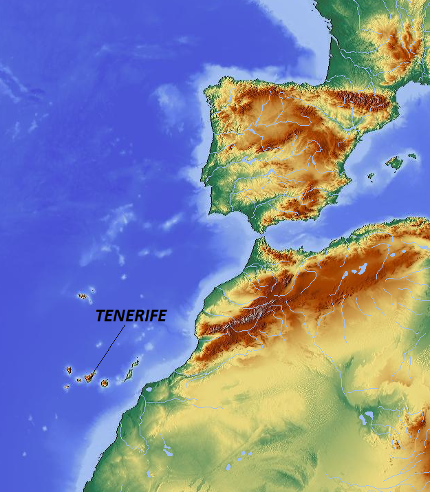 Map showing Tenerife